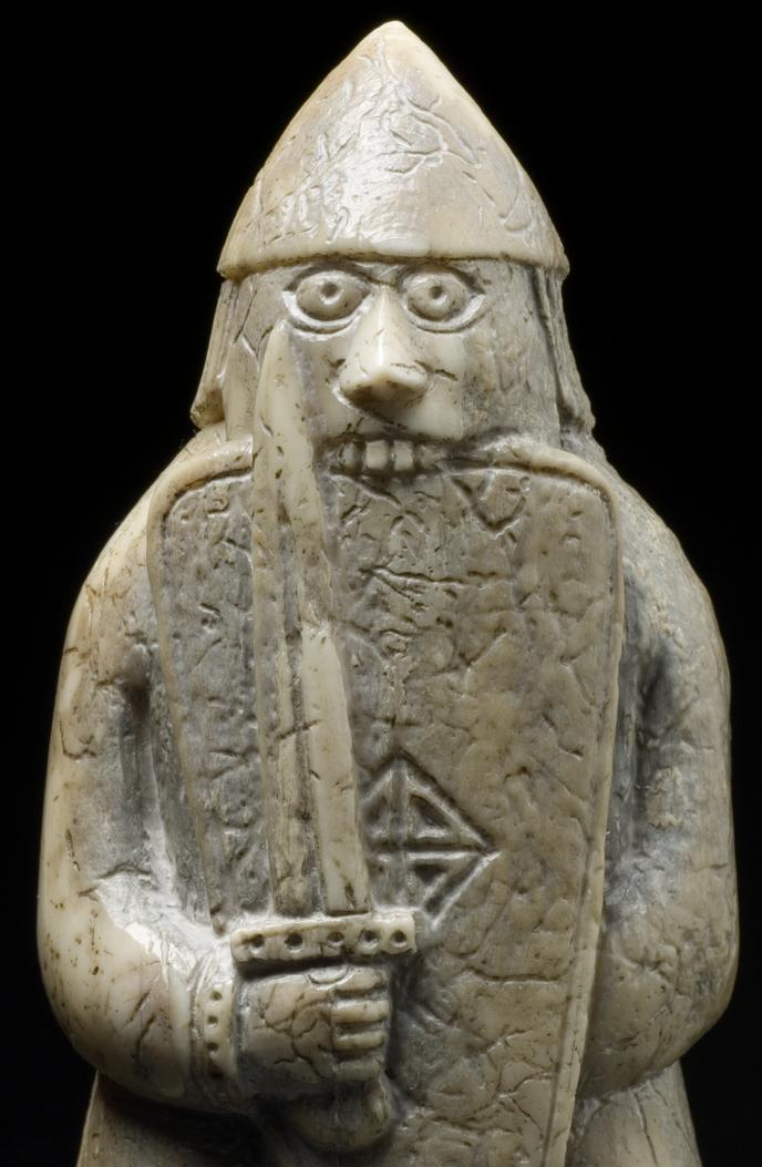 This file was uploaded as part of a partnership between Wikimedia UK and the National Museum of Scotland. This tag does not indicate the copyright status of the attached work. A normal copyright tag is still required. See Commons:Licensing. H.NS 29: Chessman or chess piece, warder or rook as a berserker, wearing an aketon, biting the top of his shield with sword raised and helmet on head, standing, of walrus ivory, found in an underground chamber in the parish of Uig, Lewis in 1831: Scandinavian, late 12th century